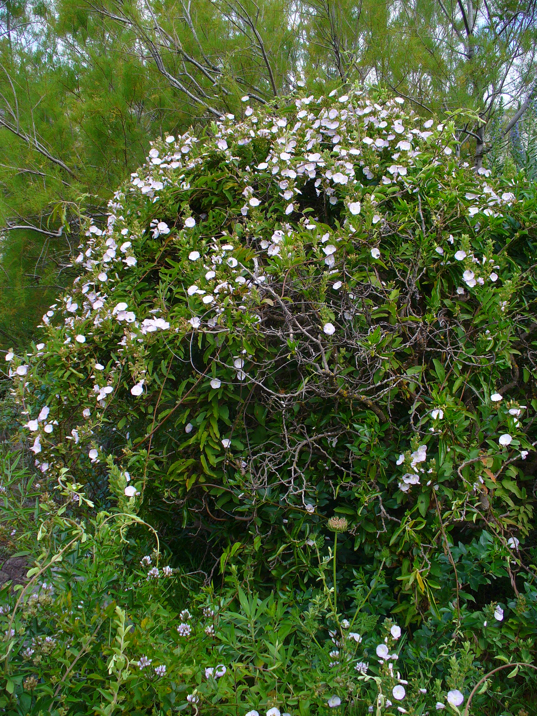 Canary Bindweed; habitus; El Paso, La Palma, Canary Islands, Spain